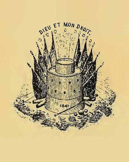 A logo used by Theodore R. Timby through out his life.